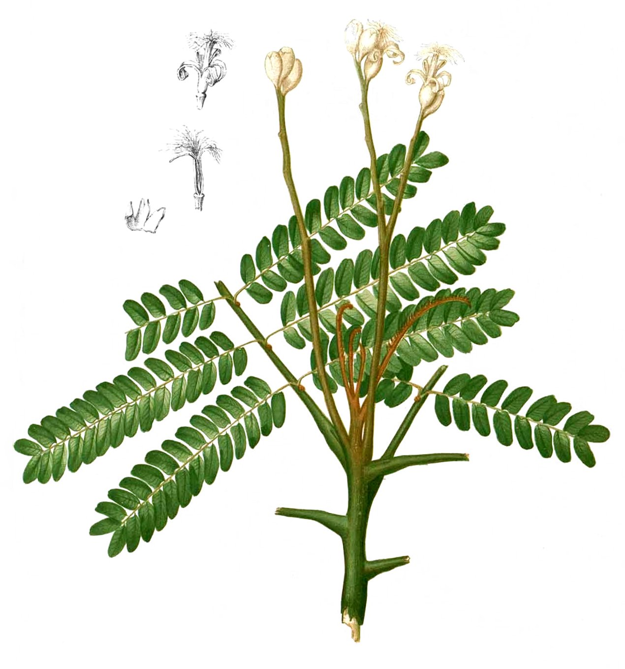 Plate from book